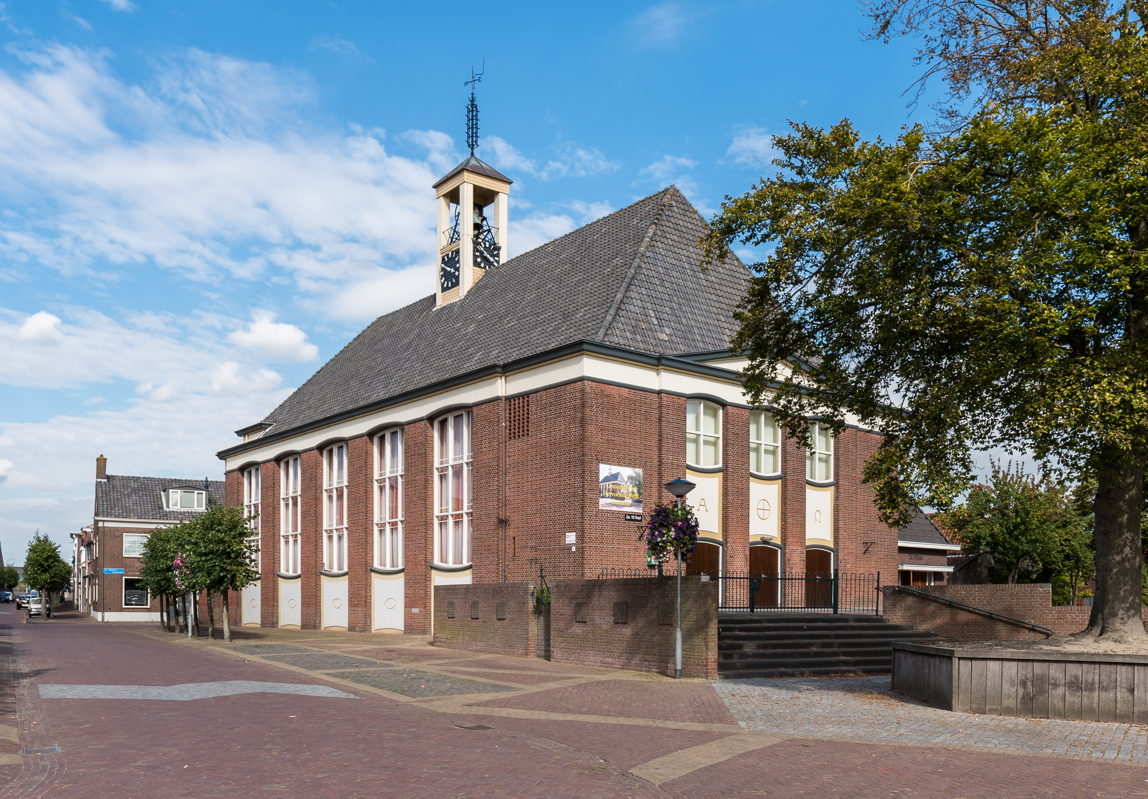 Church Hervormde Kerk in Bruinisse